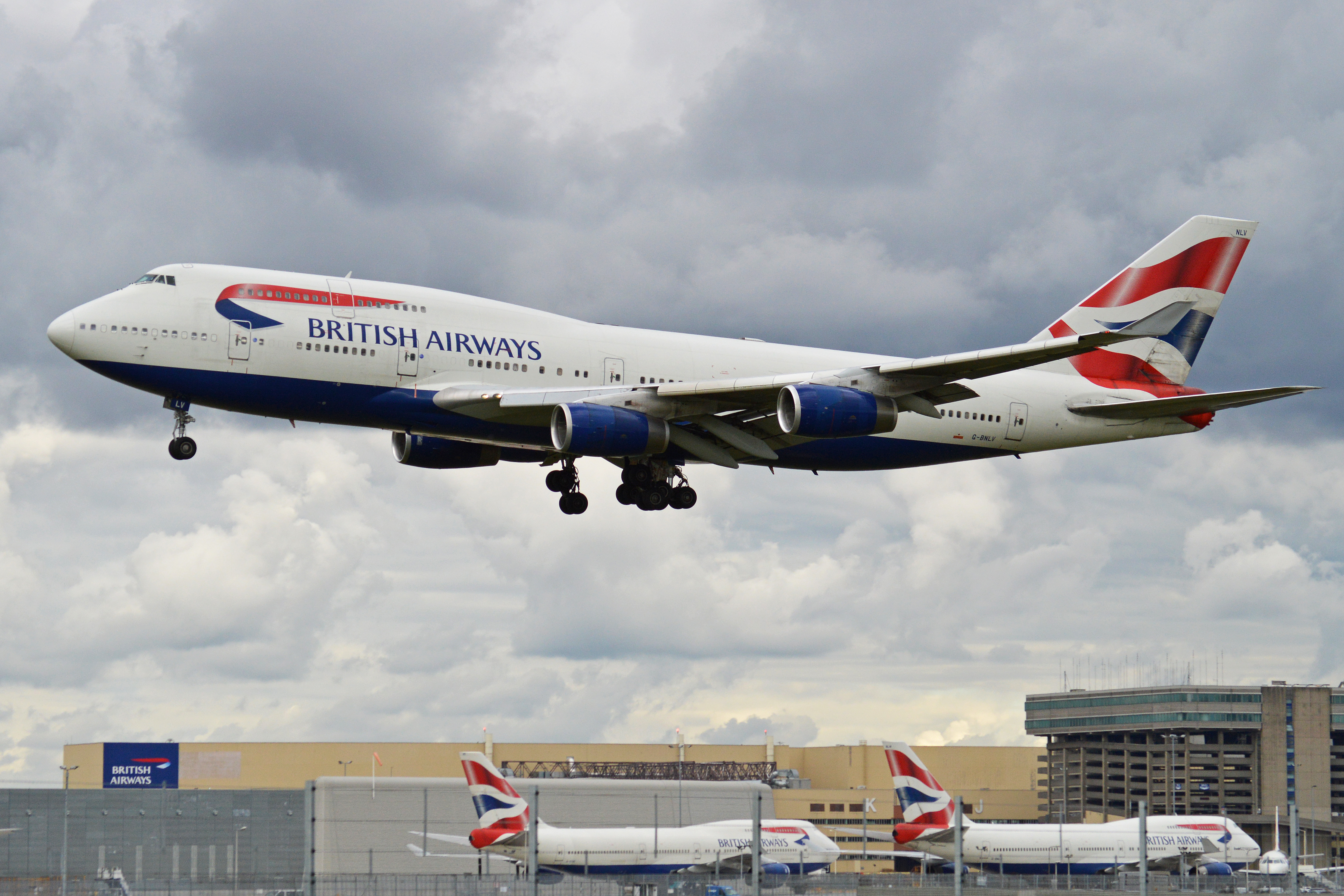 Arriving on flight BA286/6B from San Francisco. c/n 25427, l/n 900. London Heathrow. 5-10-2013